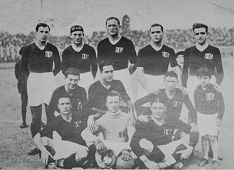 Italian team Torino F.C. that toured on Argentina in 1929. The squad played three matches with a local combined team. Torino team: Bosia; Zanello and Monti; Avalle, Colombari and Martin; Bainardi, A. Baloncieri, H. Libonatti, Rossetti and Ludueña.